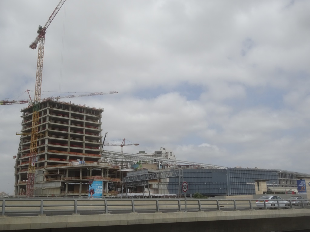 Rishonim Mall at construction. April 2016